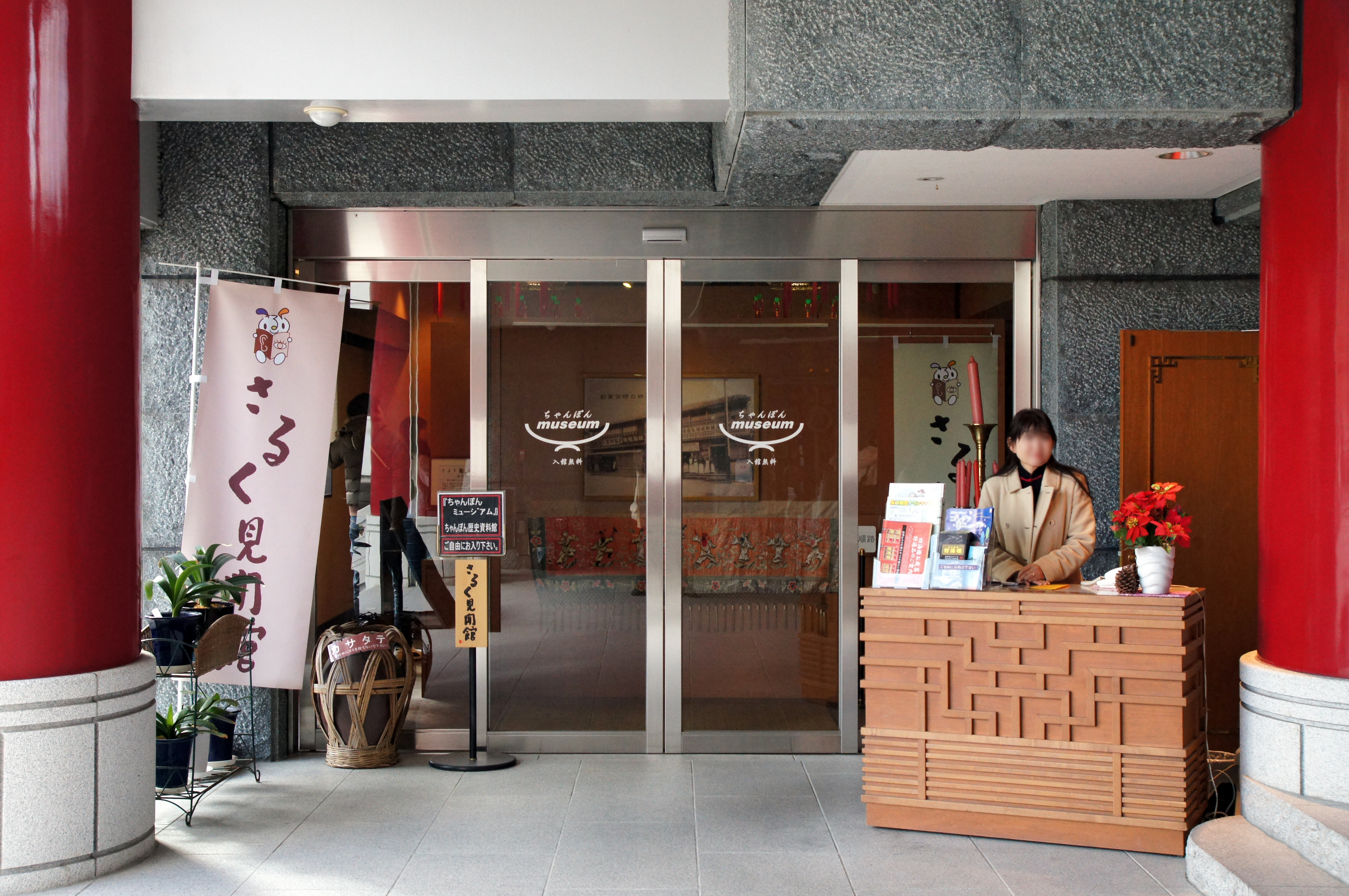 Chinese restaurant "Shikairo" in Nagasaki, Nagasaki prefecture, Japan